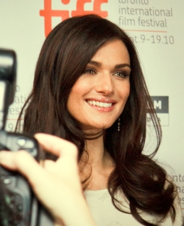 Actress Rachel Weisz at the Toronto International Film Festival premiere of The Whistleblower in September 2010.